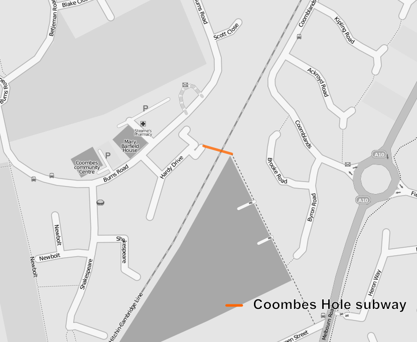 The two proposed sites for the new Royston rail crossing. Site 1 connecting the north of Royston to the ‘Coombes Hole’ allotment gardens area (in blue) and Site 2 connecting to Green Street and Morton Street (in green). Overlaid on OpenStreetMap data.